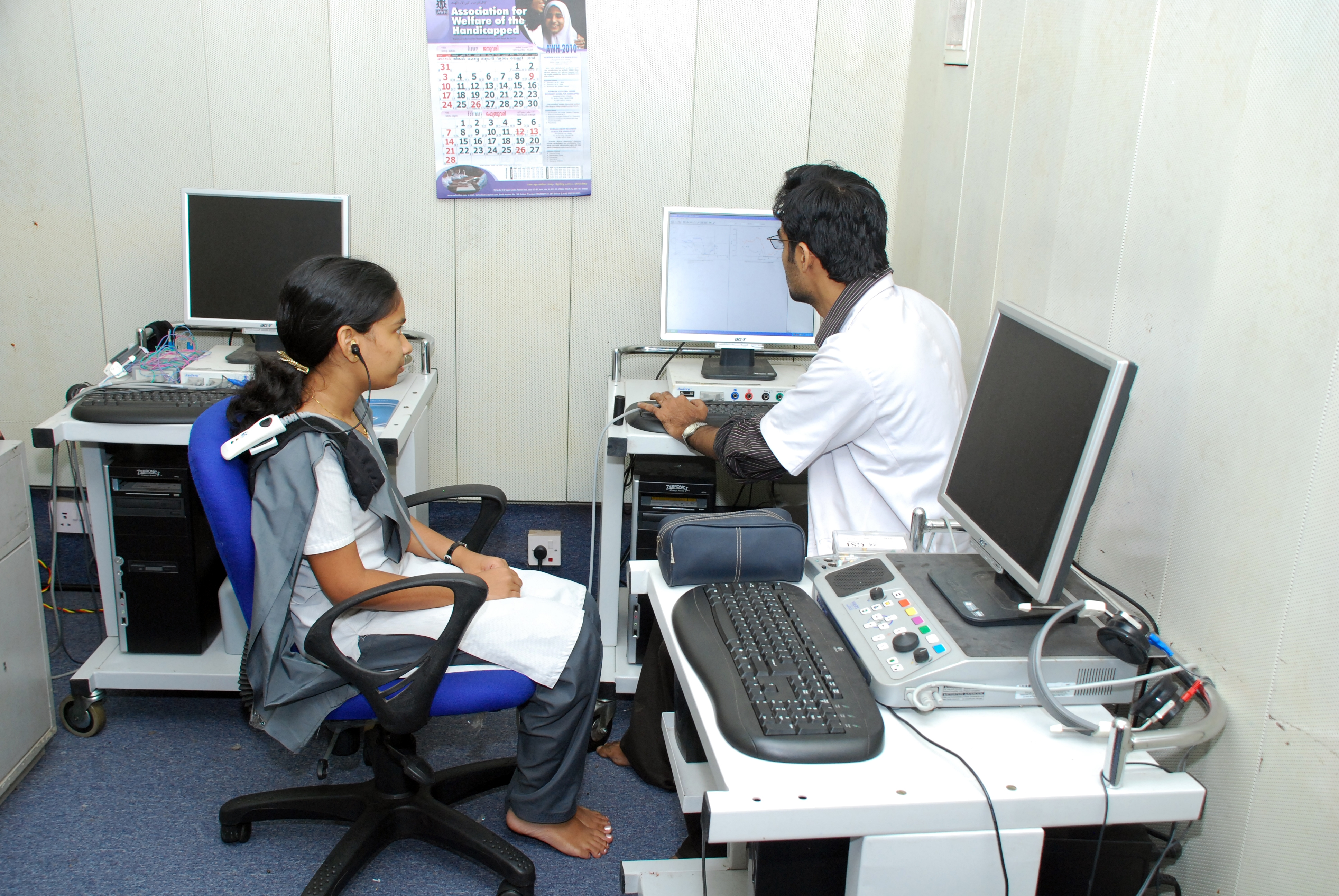 Bachelor of Audiology and Speech Language Pathology (BASLP) This program was also heavily influenced by American colleges and offered as dual degree in audiology and speech and language pathology. The education programs are very rigorous and demanding. The majority of our PGs and UGs are employed in India and other countries like United States, Australia, United Kingdom, and Middle East countries. BASLP is a dual Bachelor degree program in paramedical stream and is of four years duration, which includes one-year internship. The program is affiliated to the University of Calicut and recognized by the Rehabilitation Council of India (RCI). There is very high demand for qualified audiologists and speech pathologists in and out of India Programme Structure In 1 Semester: Speech, Anatomy, Physiology, Pathology, Electronics and Acoustics In II Semester: Audiology, Psychology, Linguistics, Phonetics and Genetics. In III Semester: Audiology, Articulation disorders, voice disorders, ENT, Pediatrics & Neurology. In IV Semester: Prosodic disorders, Management of orally handicapped, psychology, statistics and Research methodology. In V Semester: Neurogenic Speech Disorders, Child language Disorders, hearing aids, noise. In VI Semester: Pediatric Audiology, Aphasiology, Clinical Psychology and Cognitive Neuroscience. Practical sessions in Audiology and Speech language pathology will be interwoven along with theory classes throughout the course. No. of seats - Annual intake permitted is 25